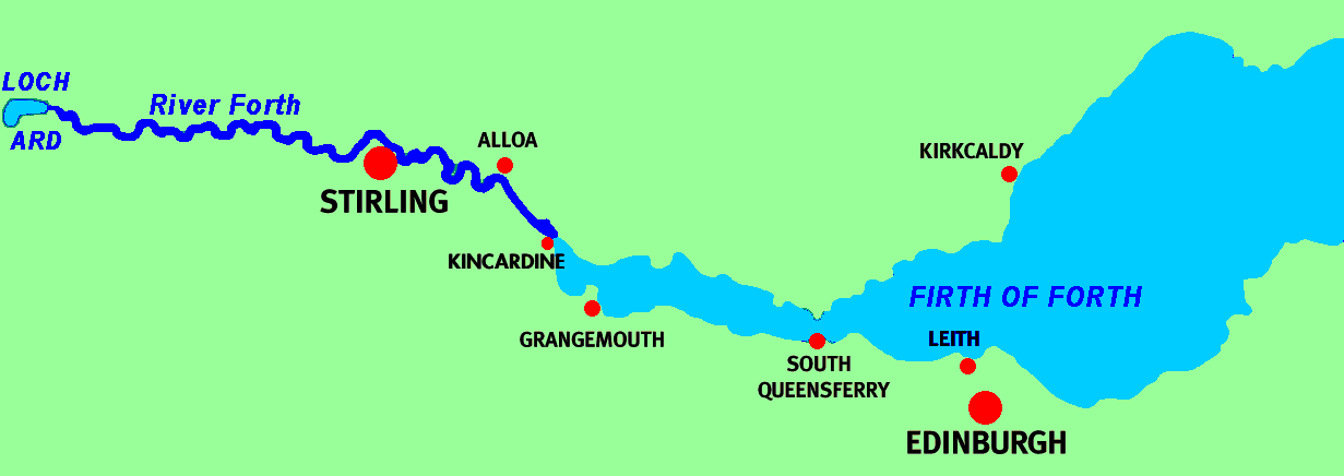 Map showing general course of the River Forth. Whipped up as a raster image because I have no vector editing software.